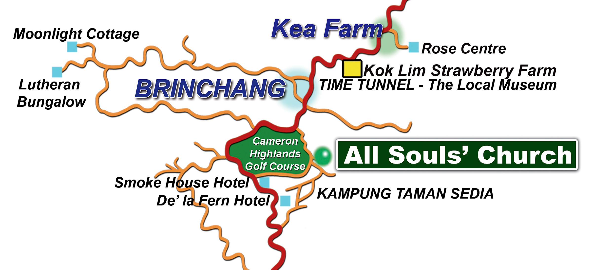 Location map of ALL SOULS’ CHURCH (Address: Jalan Pejabat Hutan, Taman Sedia, 39000, Tanah Rata, Cameron Highlands, Pahang, West Malaysia).